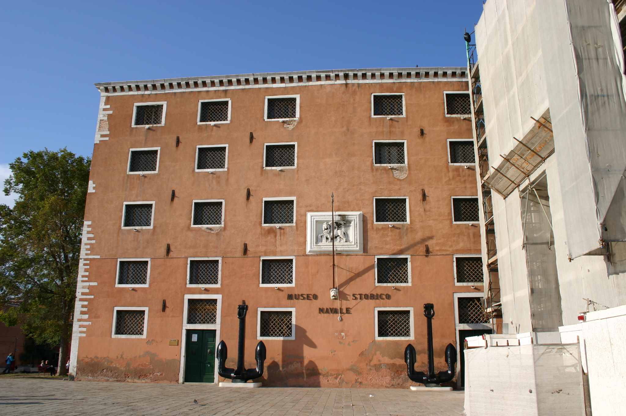 The Historical Ship Museum in Venice. Picture by Giovanni Dall'Orto, August 3, 2007.